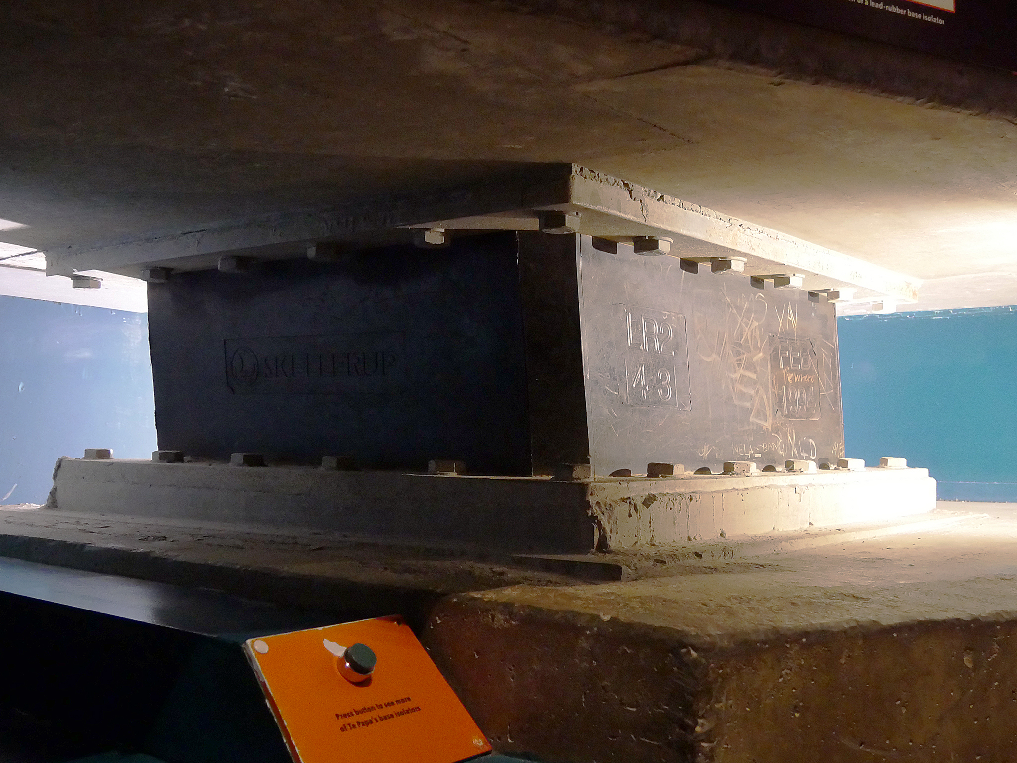 Shock Absorber, Museum of New Zealand Te Papa Tongarewa, Wellington, New Zealand